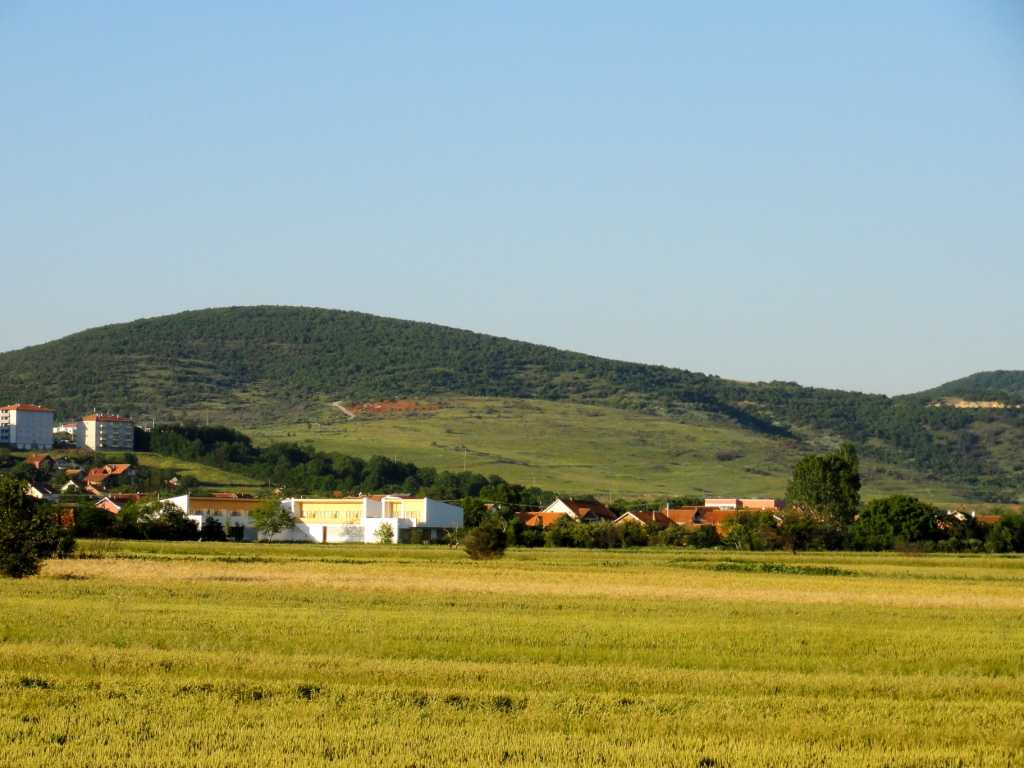 View from the fields